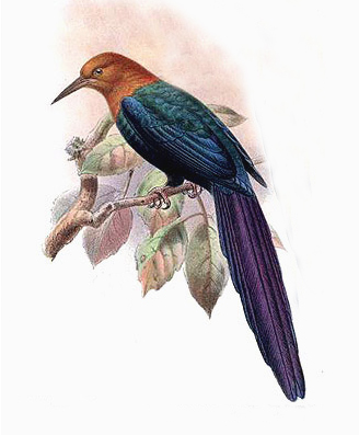 Phoeniculus castaneiceps painting by Keulemans